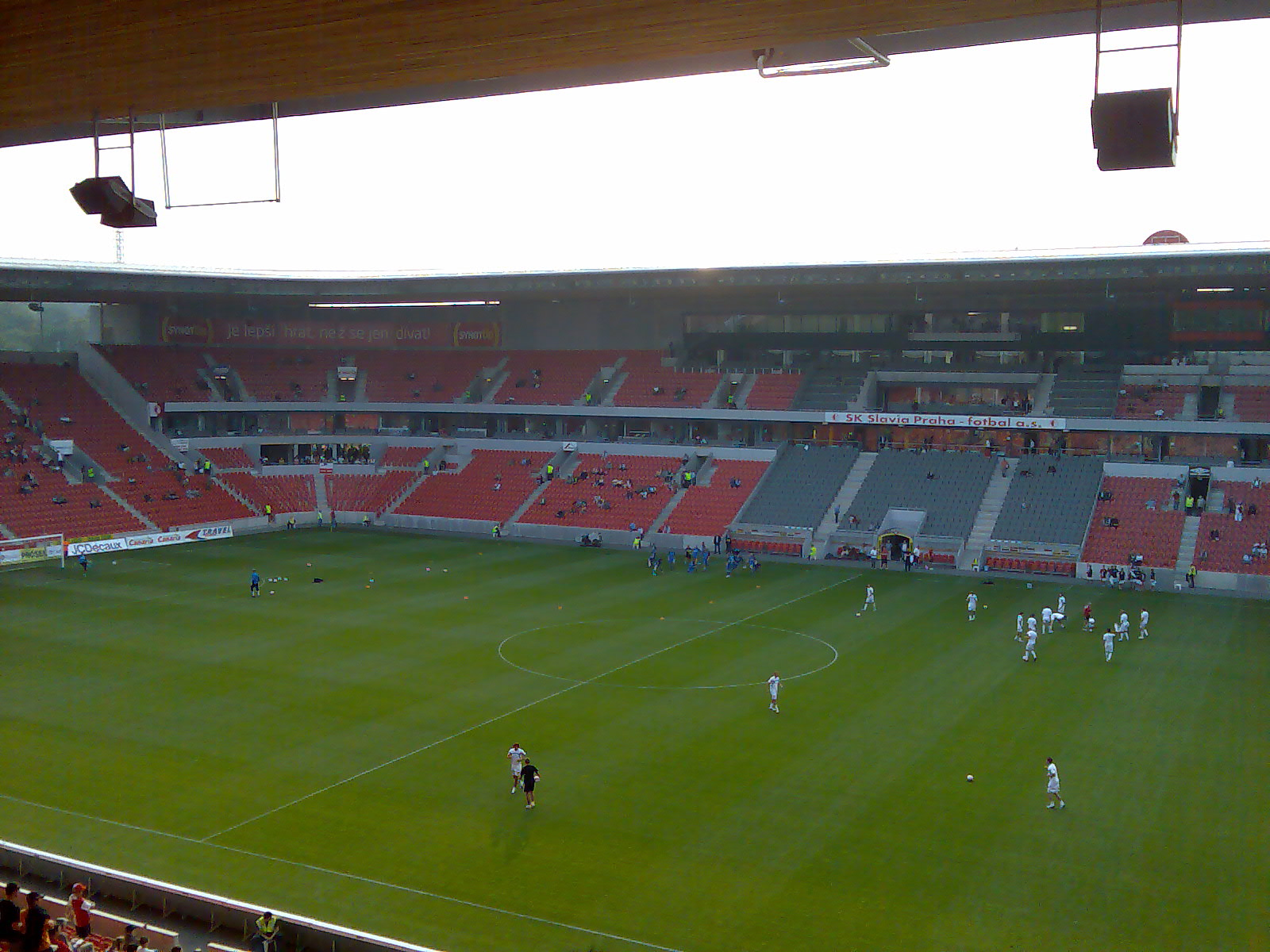 Football stadium Eden (SK Slavia Praha) Česky: Fotbalový stadion SK Slavia Praha v Edenu (pohled před utkáním SK Slavia Praha - FC Baník Ostrava).